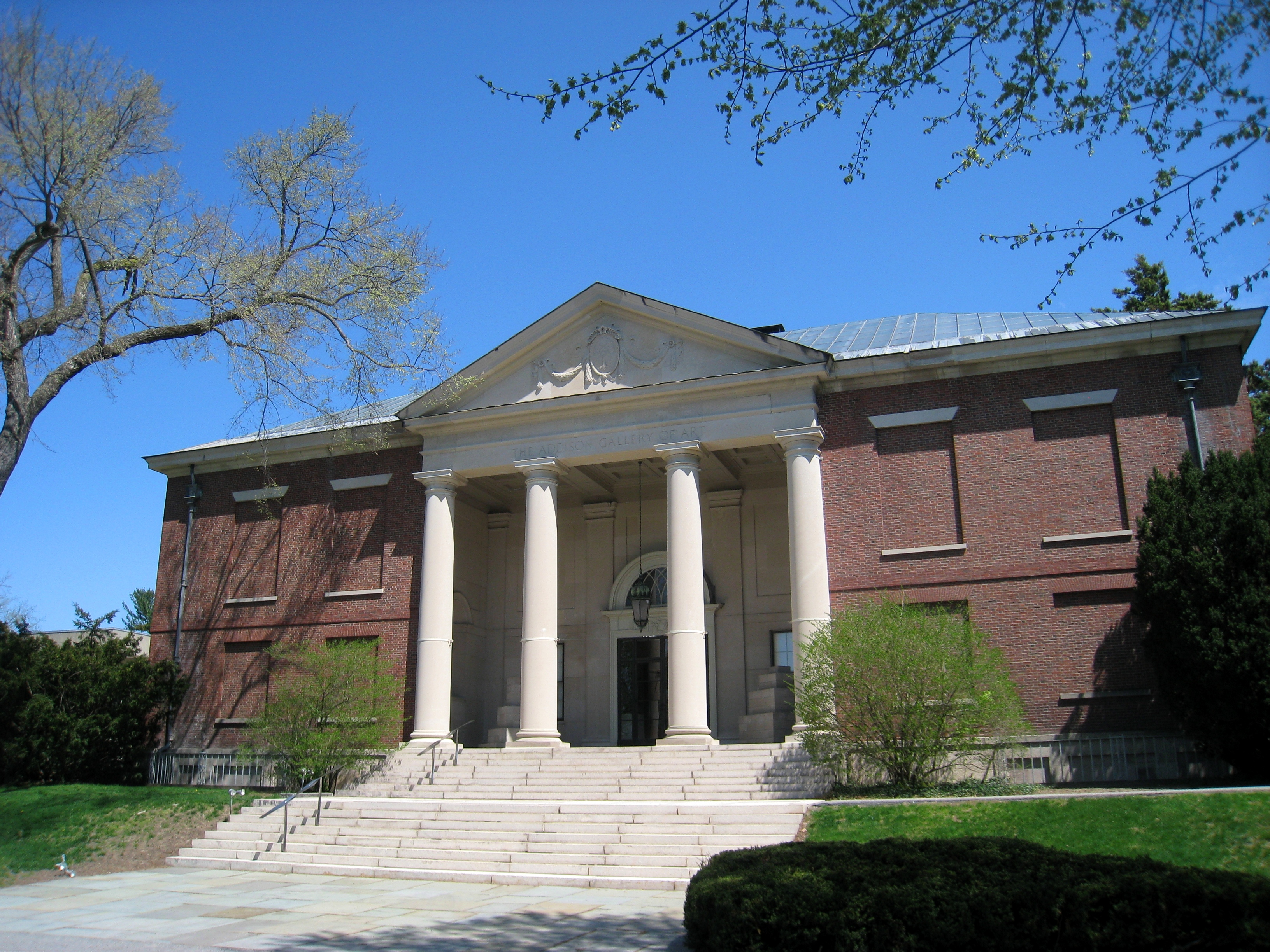 Phillips Academy, Andover, Massachusetts, USA - Addison Gallery of American Art, front facade.